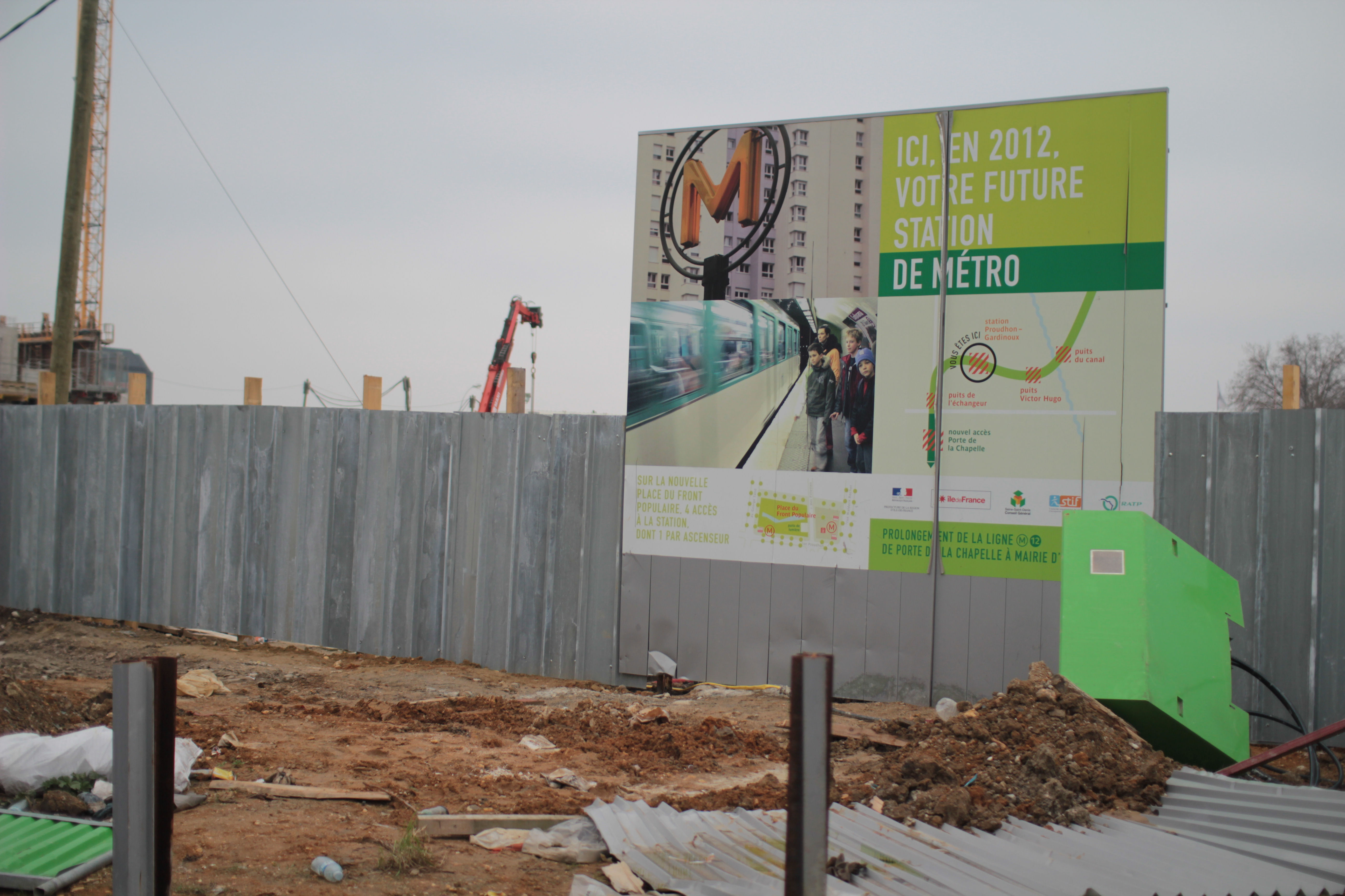 The metro station under construction Front Populaire (previously known as Proudhon-Gardinoux) of Parisian metro line 12 on the border of the communes of Saint-Denis and Aubervilliers, january 2012